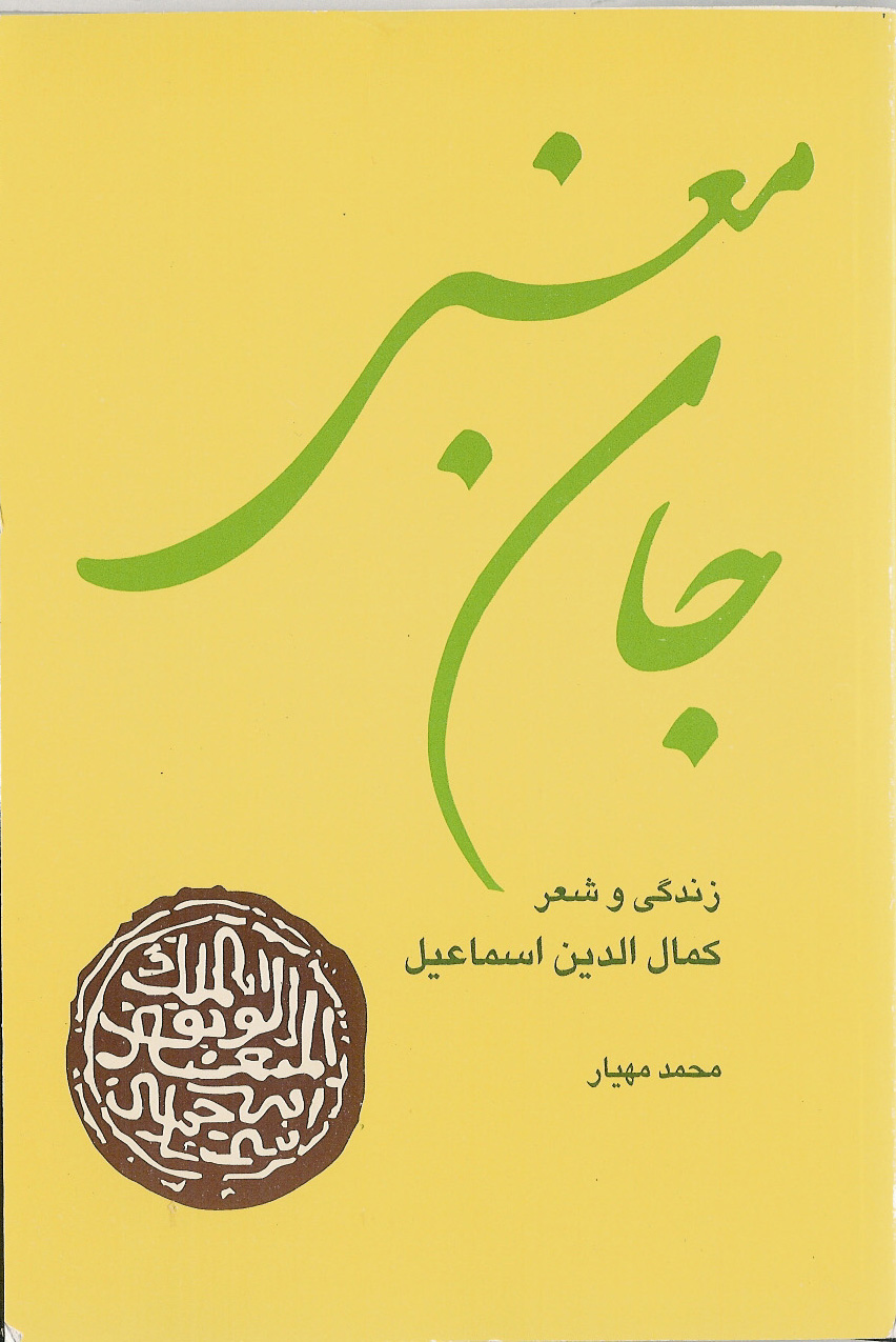 زندگی و نقد شعر کمال الدین اسماعیل